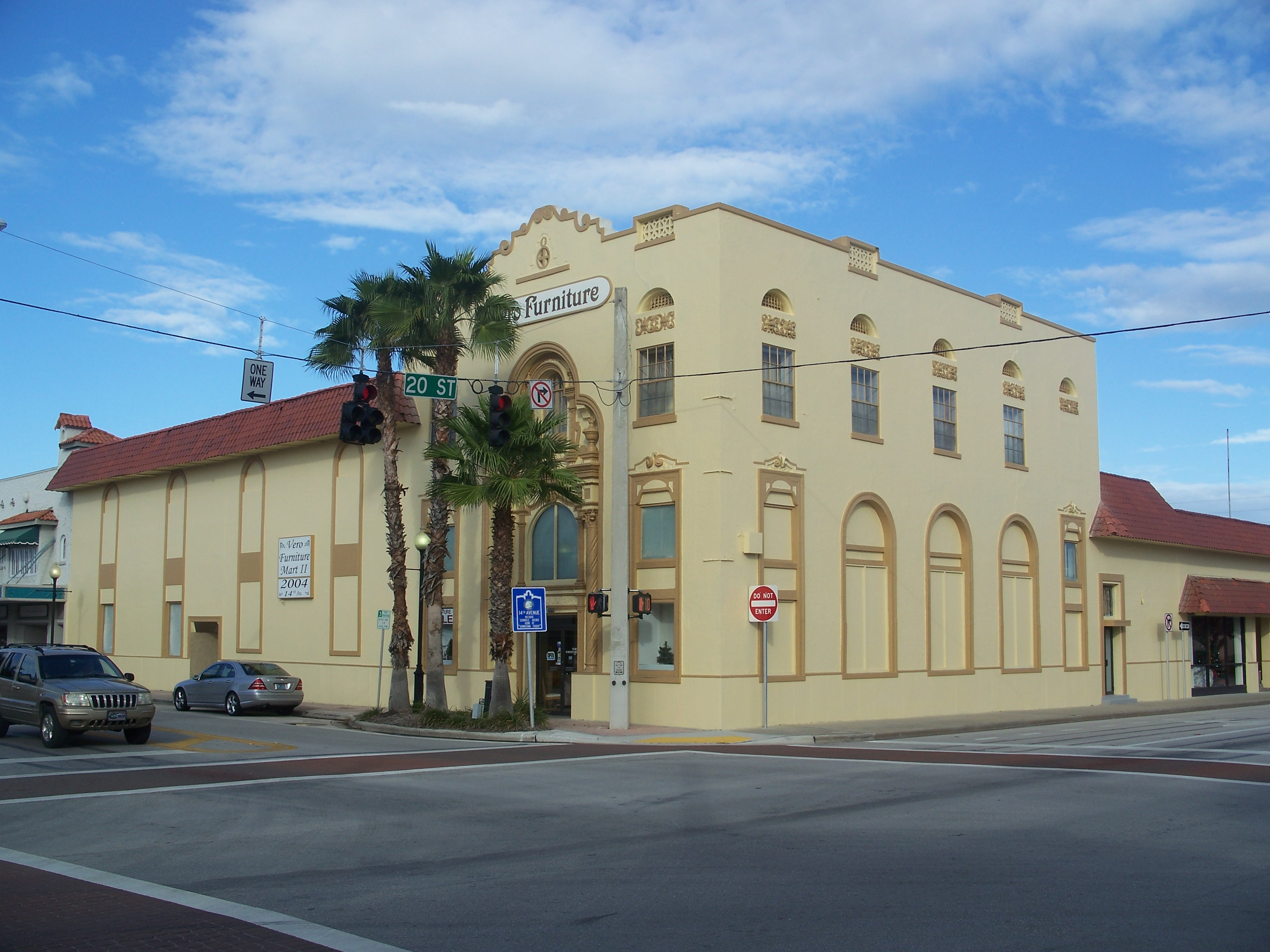 Vero Beach, Florida: Old King's Caberet building